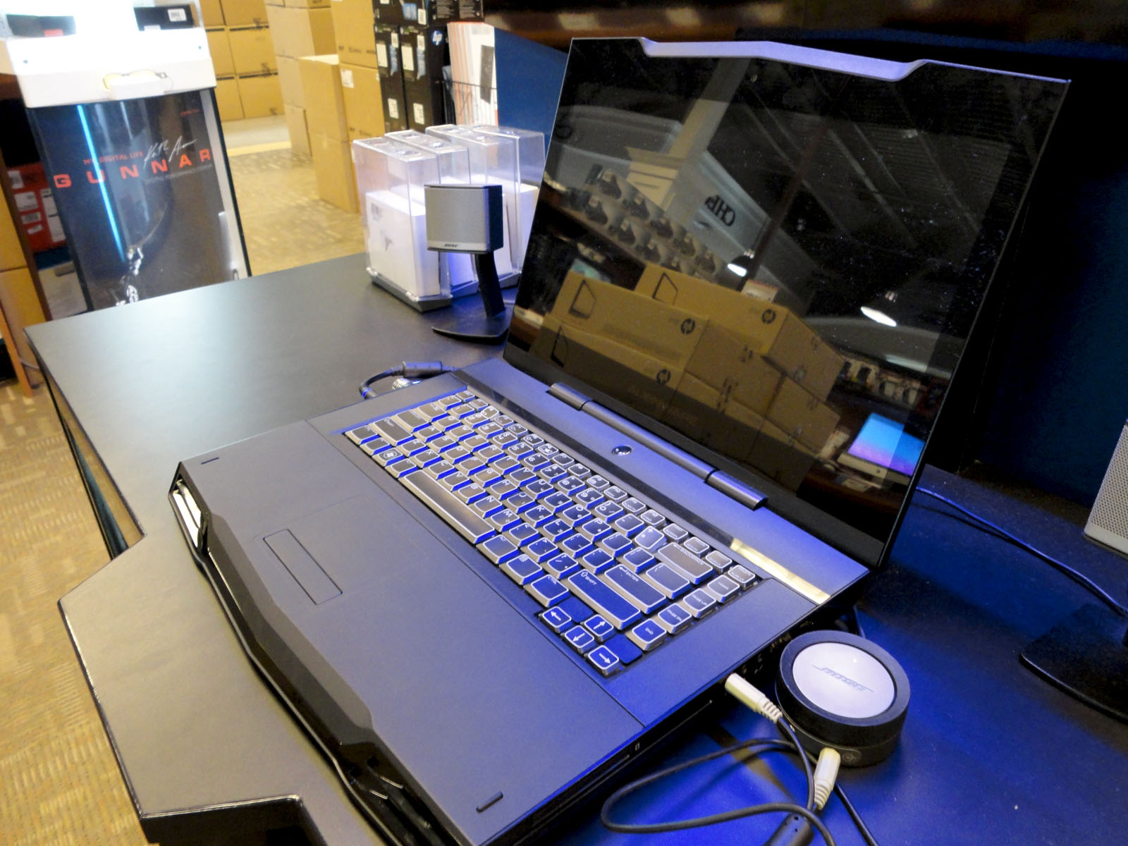 Alienware M15x displayed in a computer shop.